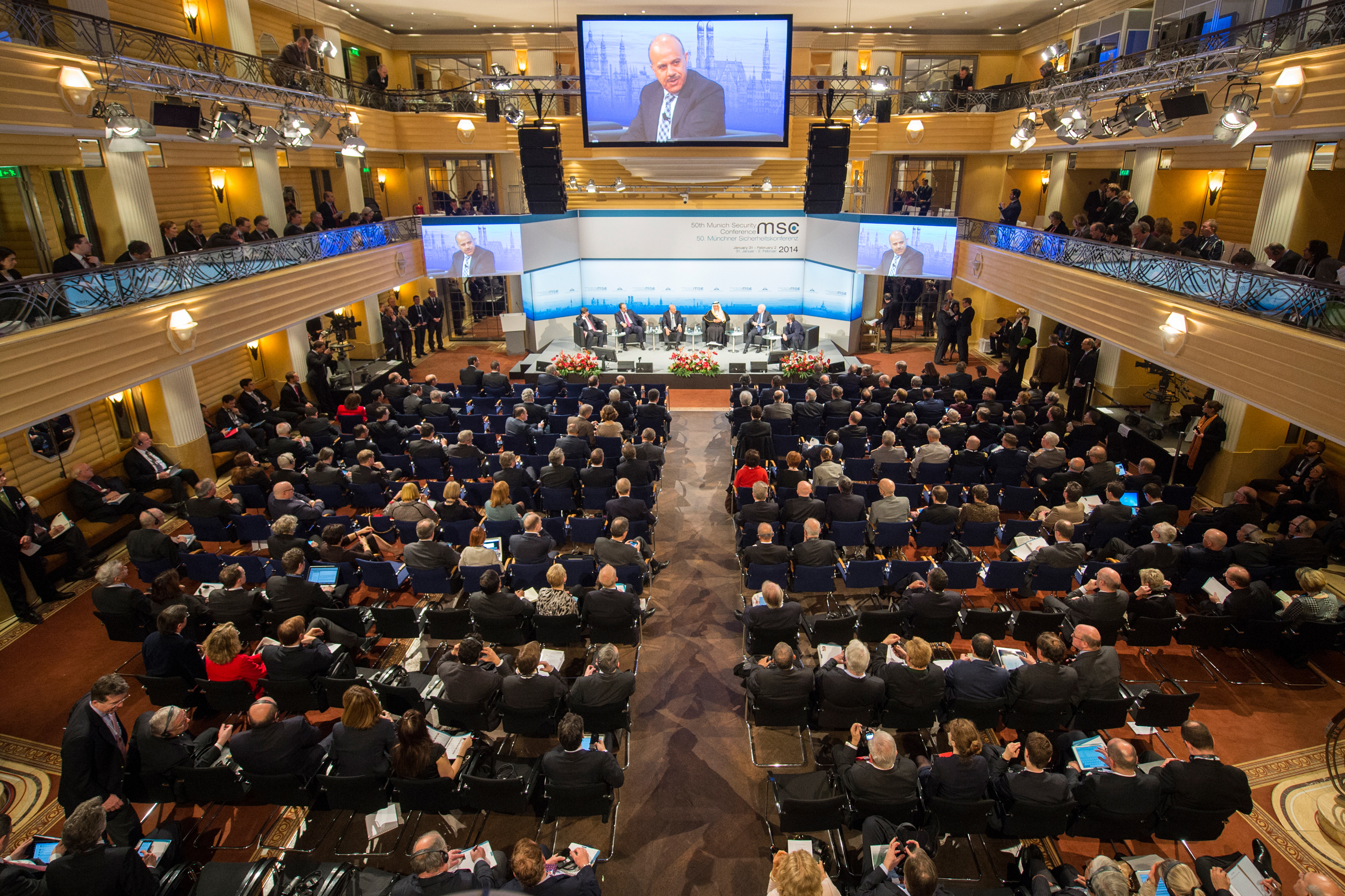 50th Munich Security Conference 2014: What Season is next for the Middle East?: Ahmet Davutoğlu, Khalid Mohamed A. Al-Attiyah, Abdullatif bin Rashid Al Zayani, Prince Turki Al Faisal bin Abdulaziz Al Saud, John McCain, Ian Bremmer.